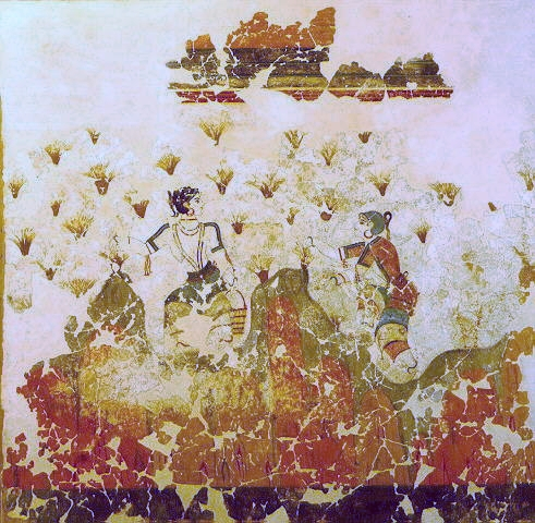 Saffron gatherers, Santorini, Greece.